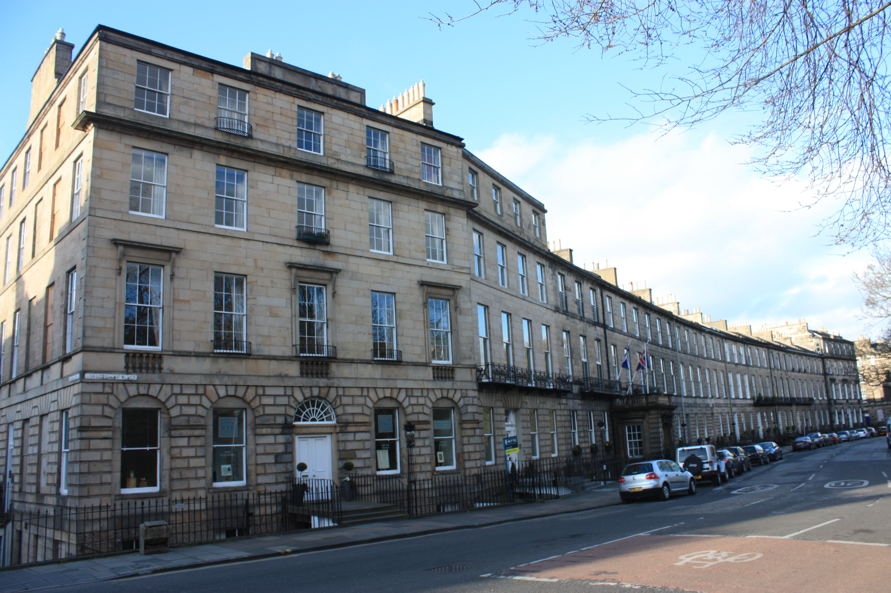 22-33 Abercromby Place, Edinburgh